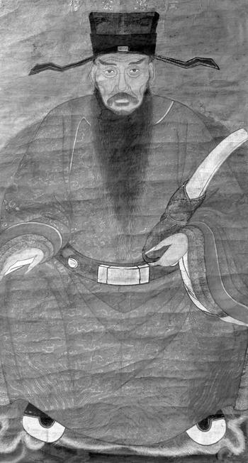 Zhang Cong (Fujing), politician of the Ming Dynasty.